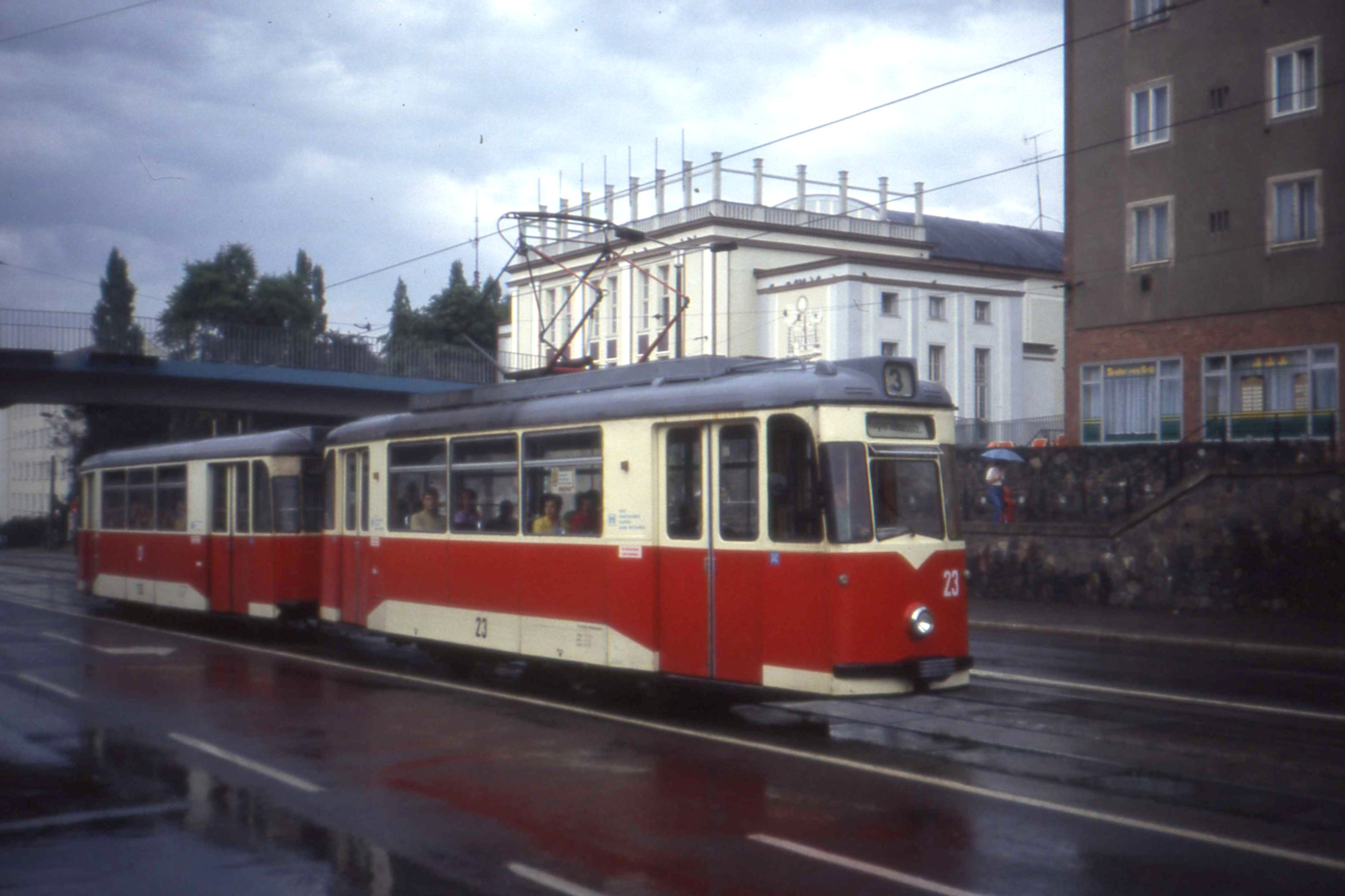 Gotha two axle motor car nr 23Tatra / Gotha T2D 1968 1972 ex Halle 832 1993 verschrottet